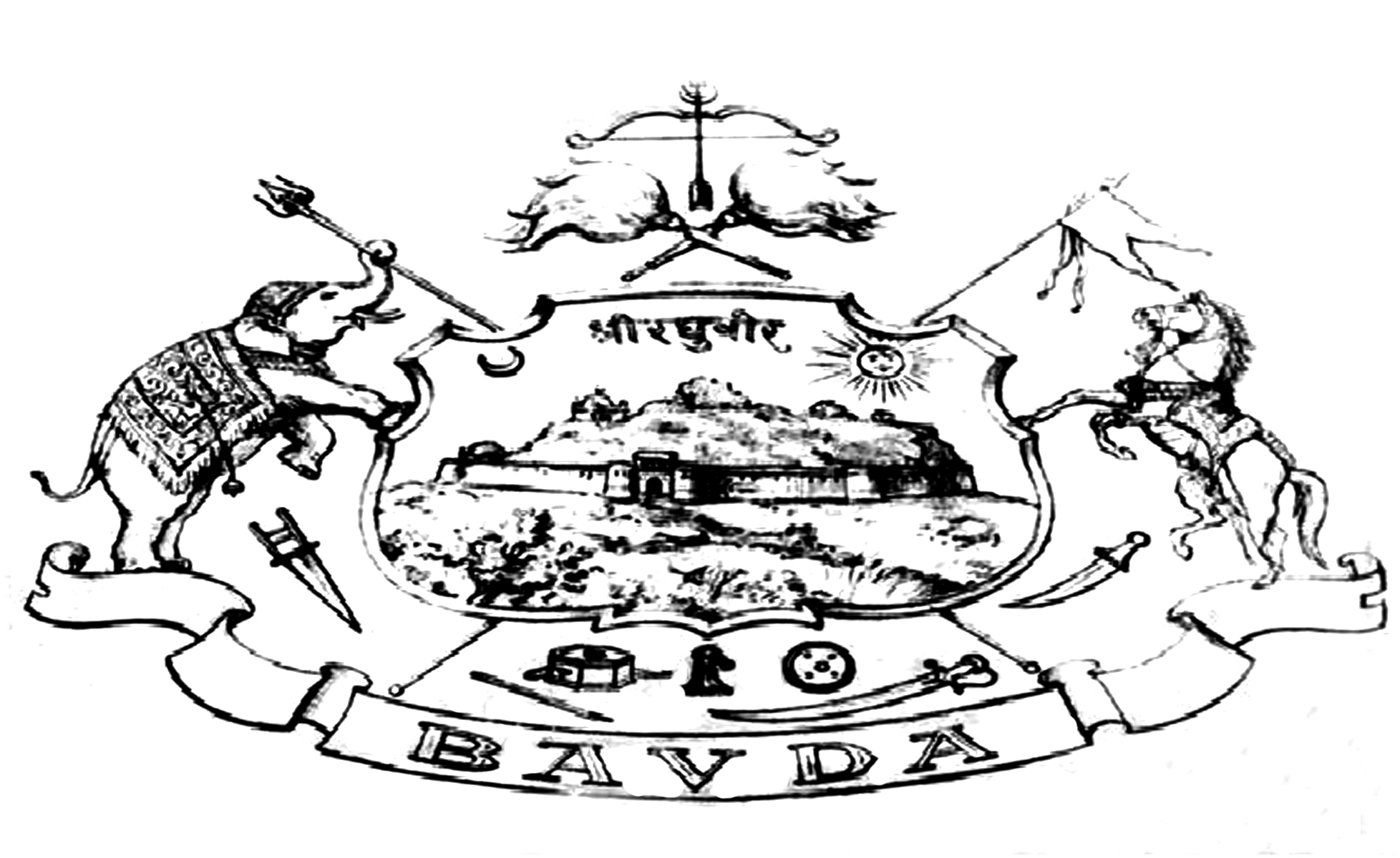 Coat of Arms of Pant Amatya Gaganbavada